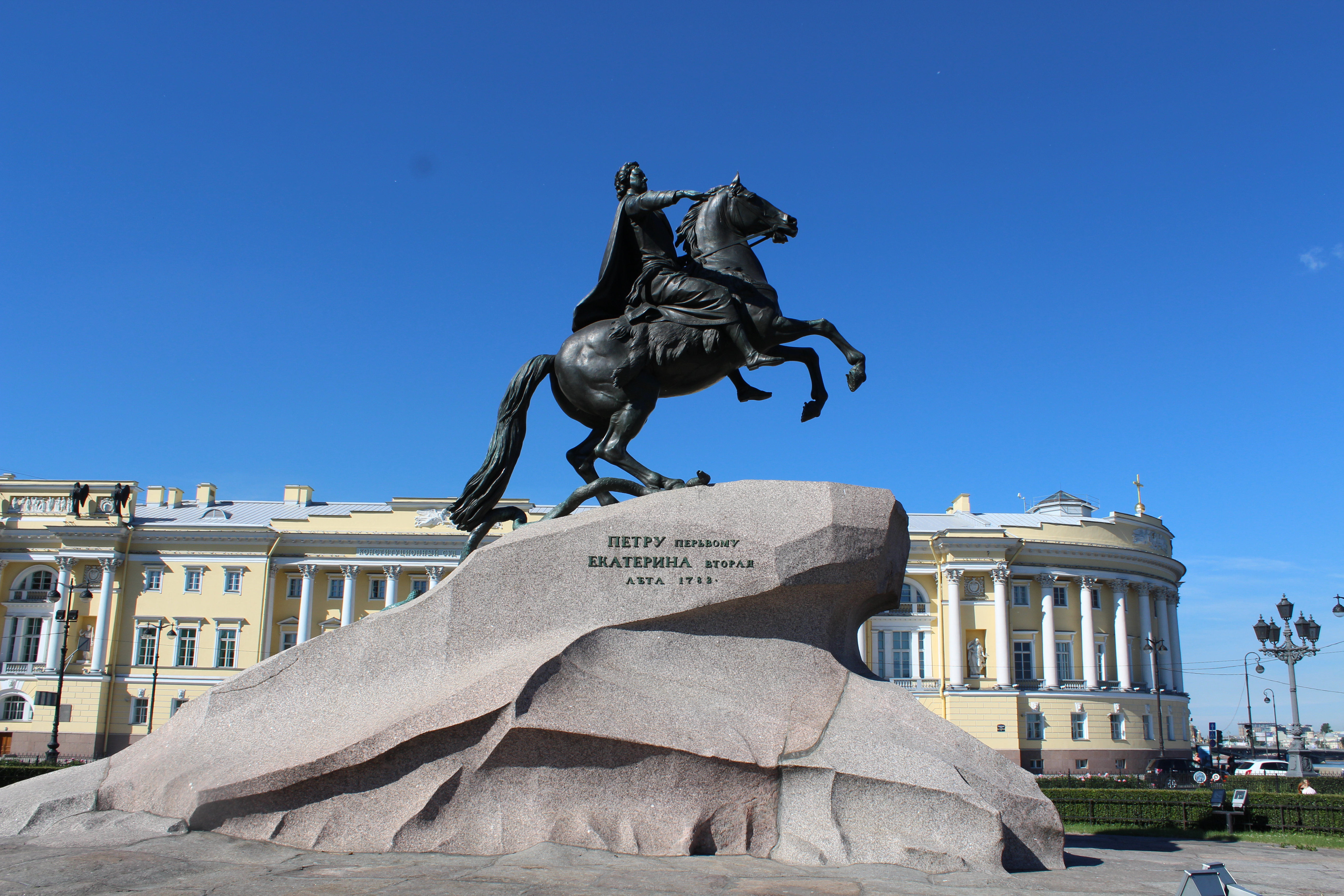 The Bronze Horseman (Saint Petersburg)